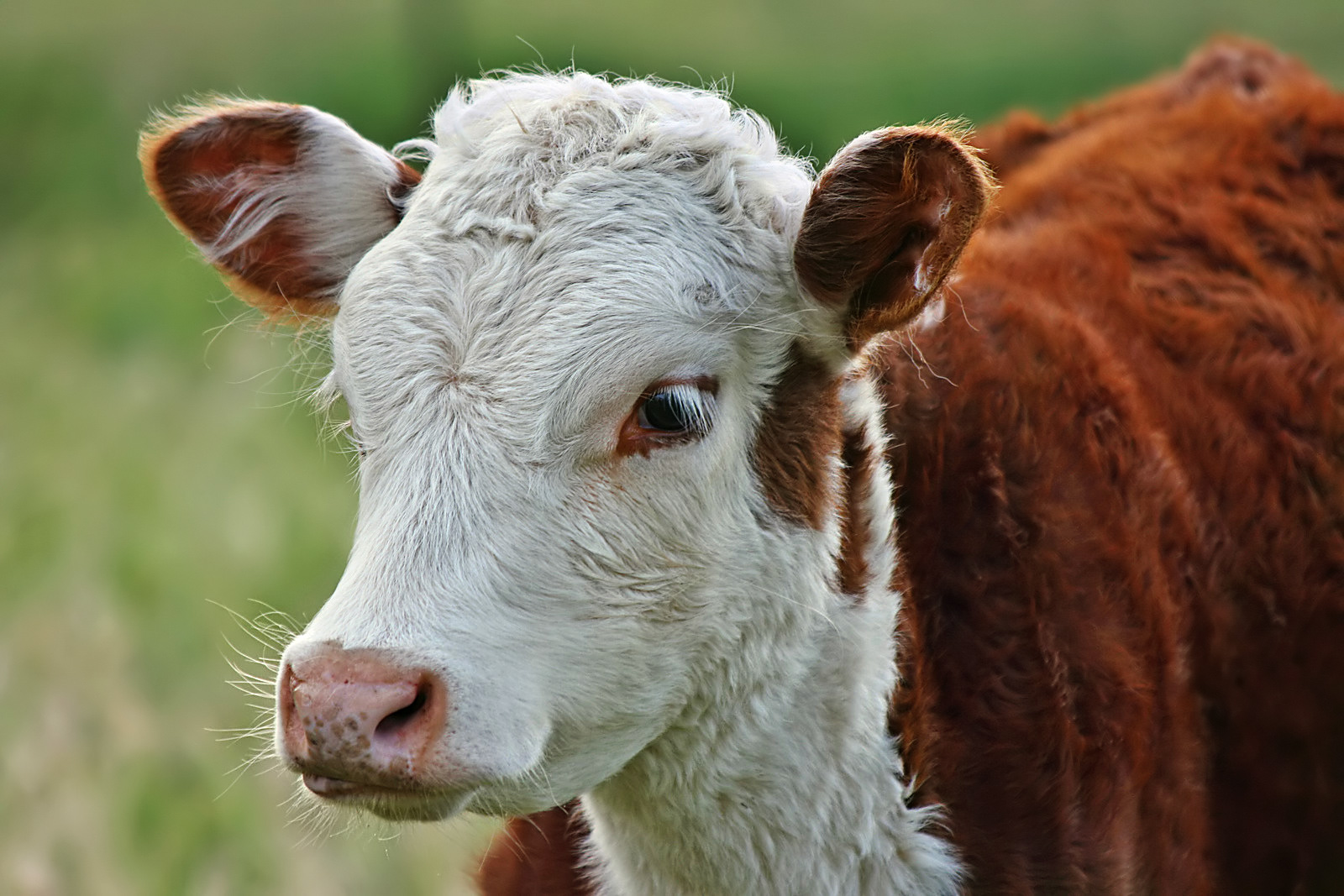 Portrait of an unmarked Hereford cattle calf (Bos taurus). Taken in Victoria, Australia.